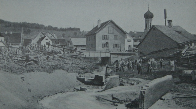 The Steigbach desaster of 1873 in Immenstadt.